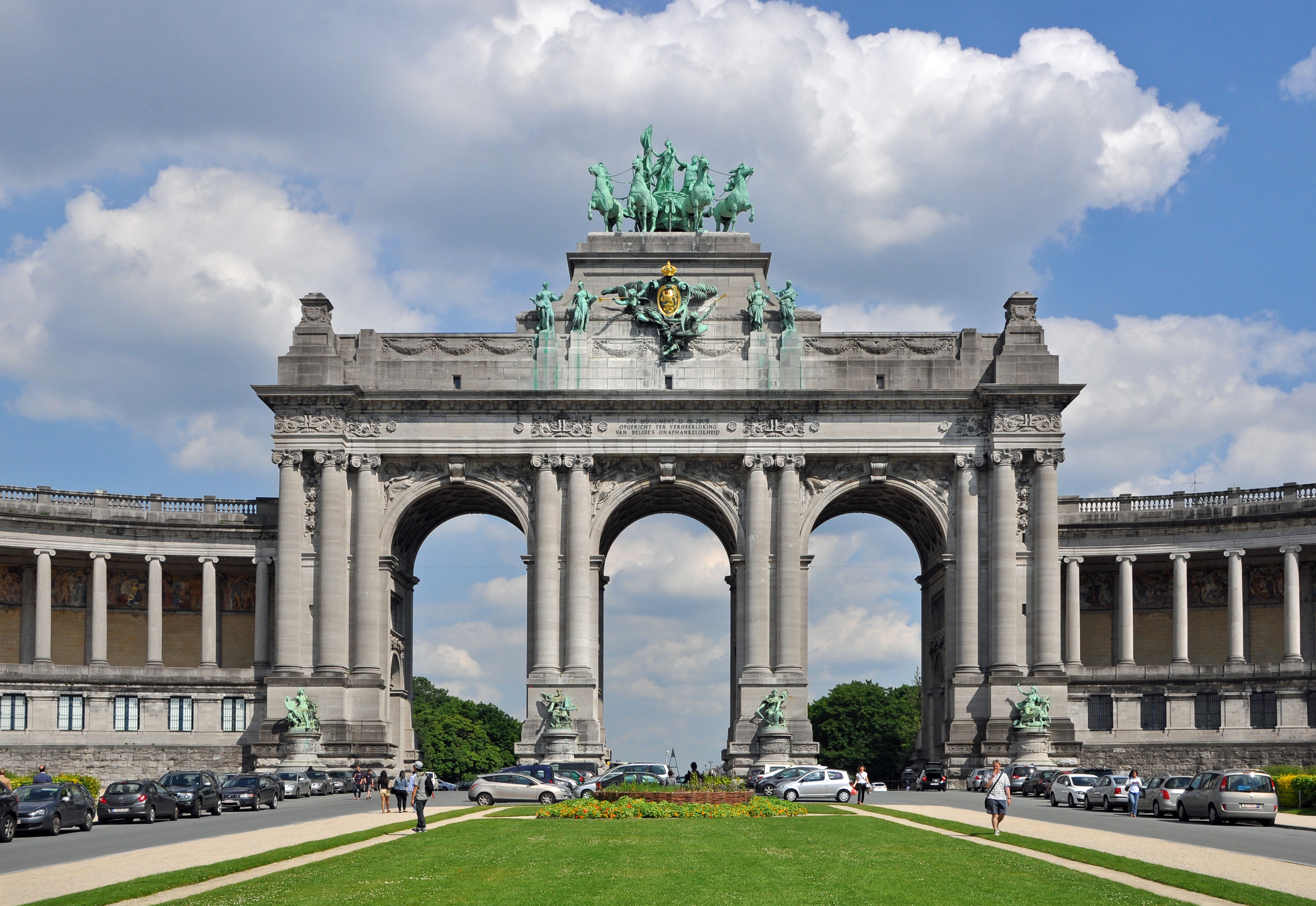 Brussels (Belgium): Triumphal Arch of the Cinquantenaire.